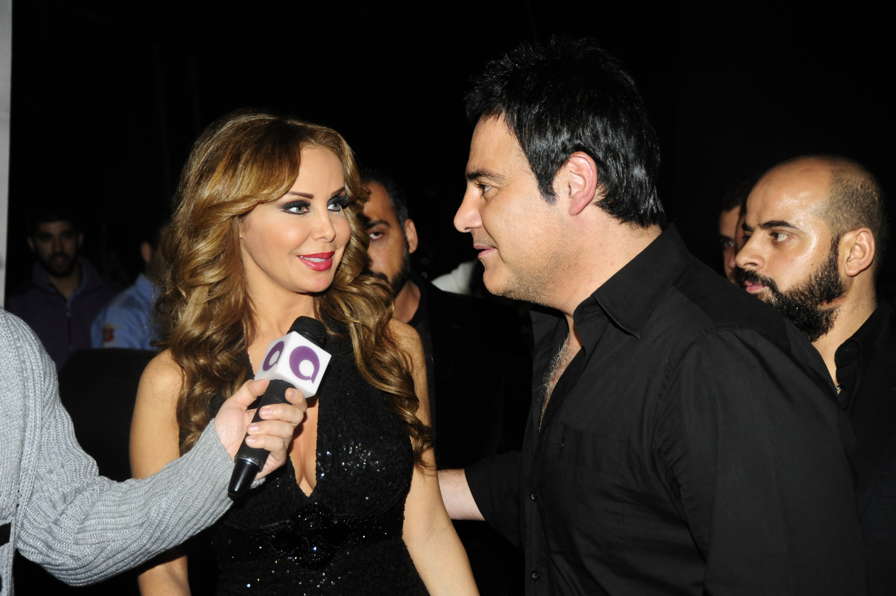 Rola Saad - Casino du Liban Concert - November 21, 2012 - with Assi El Helani